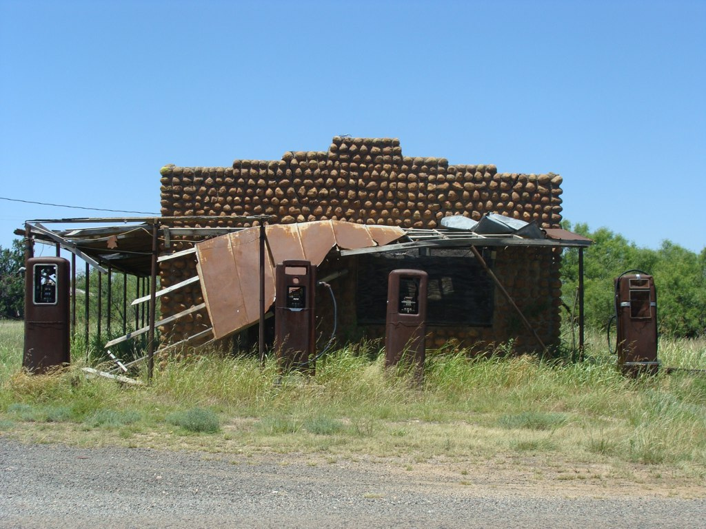 Medicine Mound, old gas station